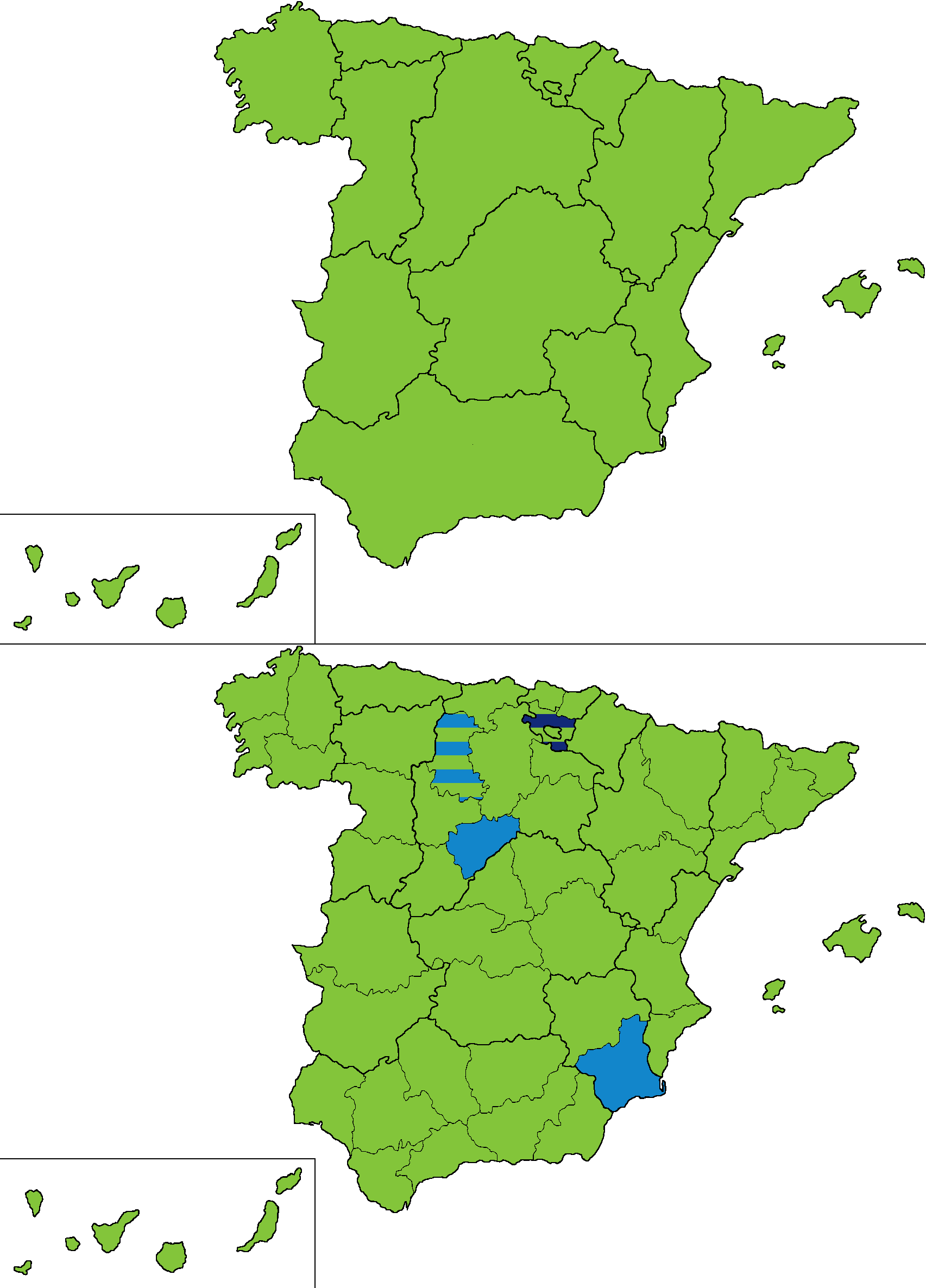 Most voted party in the 1881 Spanish Congress of Deputies election by regions and provinces.